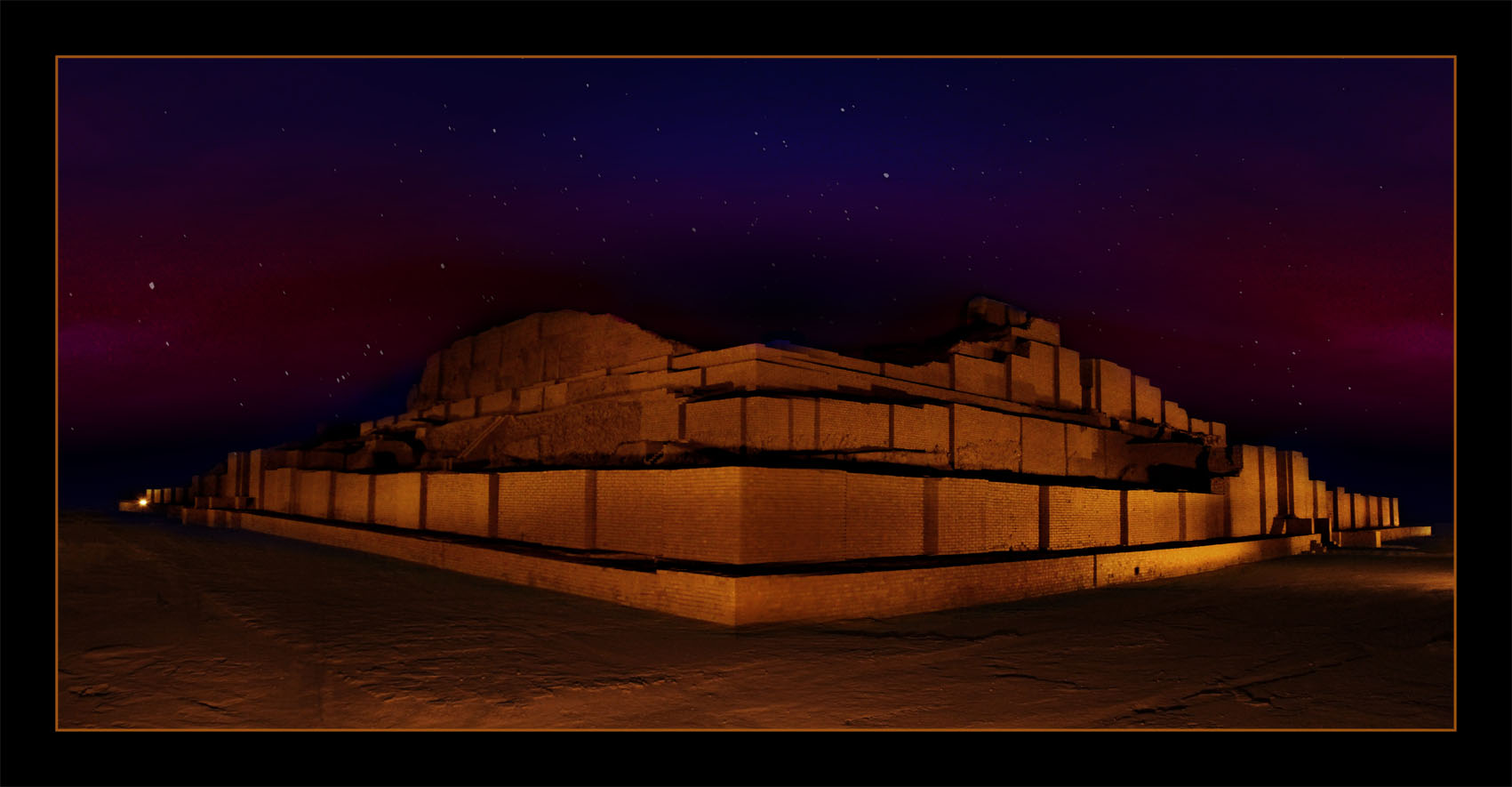 Choga Zanbil